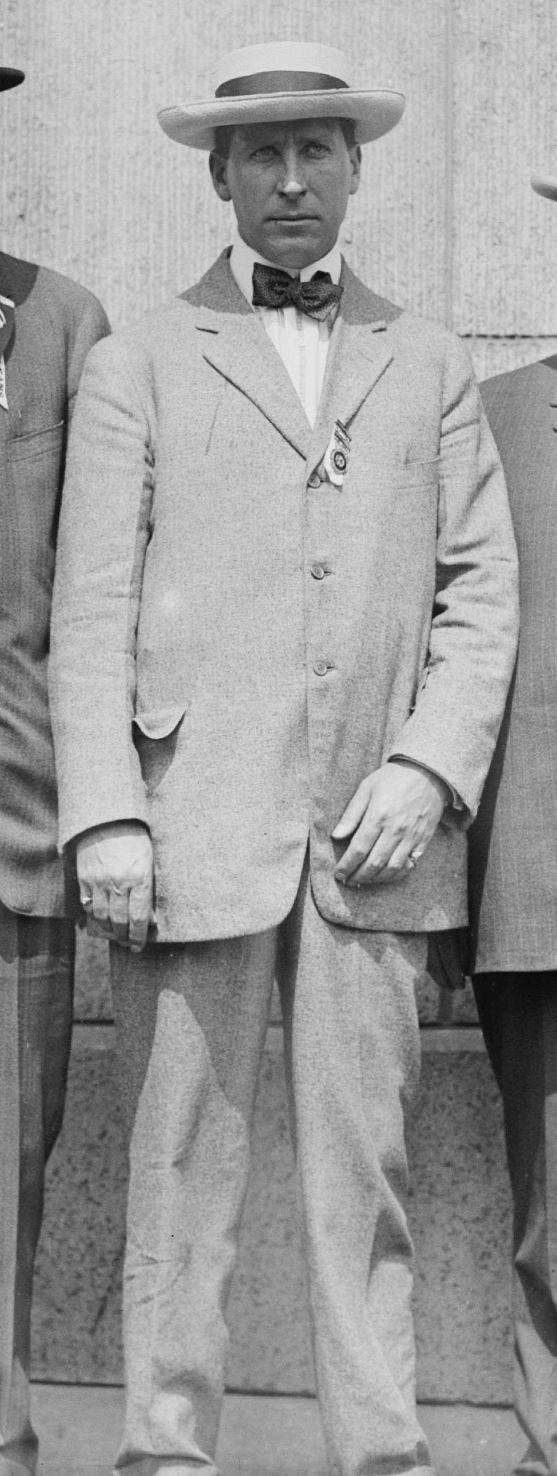 George Washington Olvany (1876-1952) circa 1913 in Manhattan